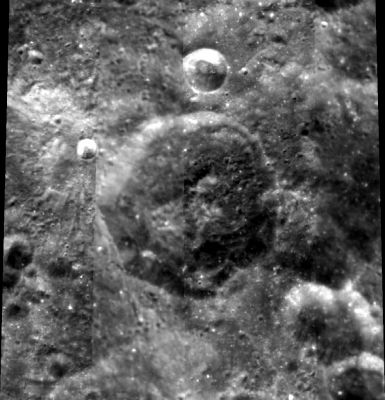 Kidinnu lunar crater - Clementine image